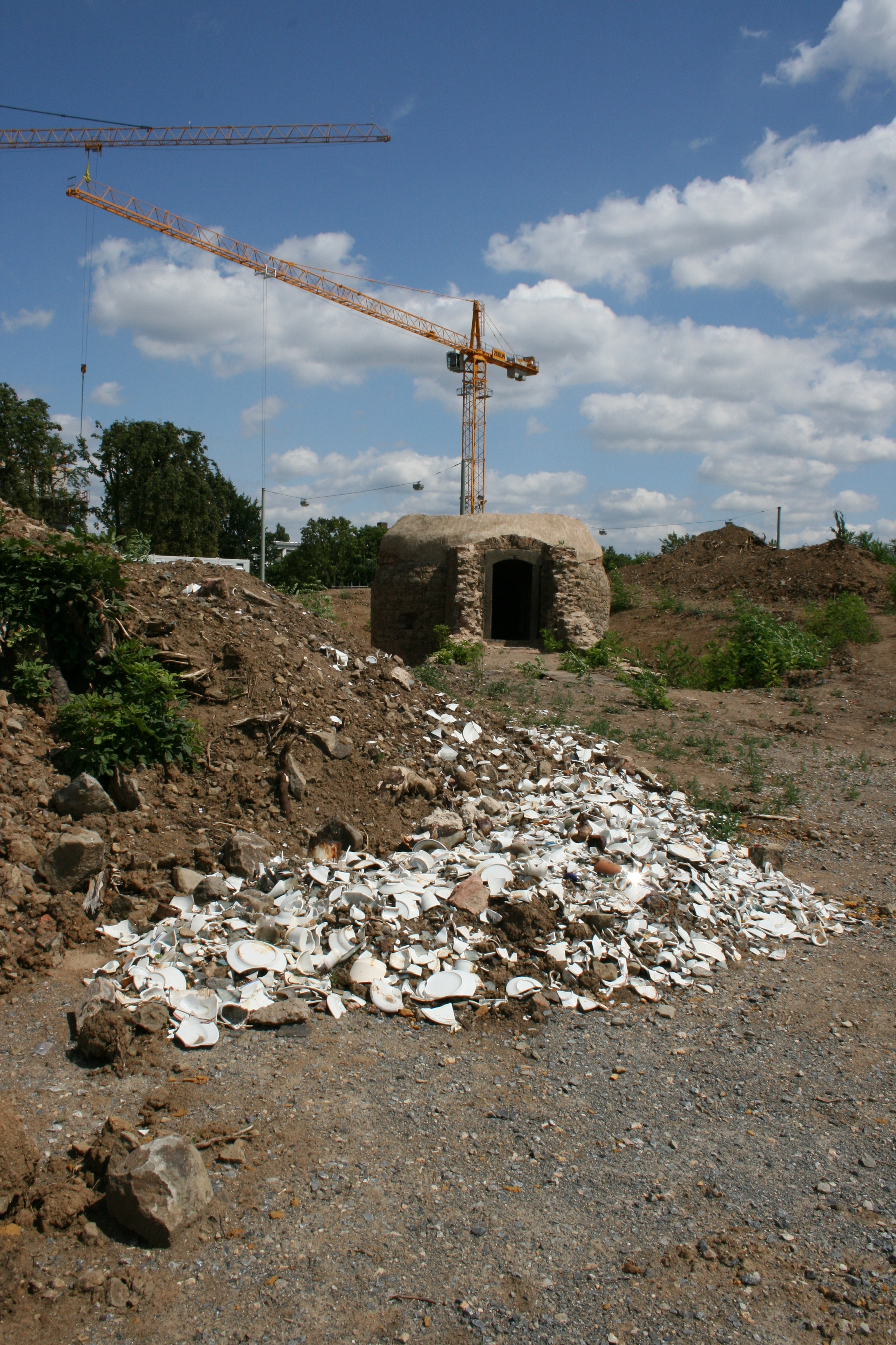 Frankfurt on the Main: Affenstein, 19th century potsherds west of the entrance